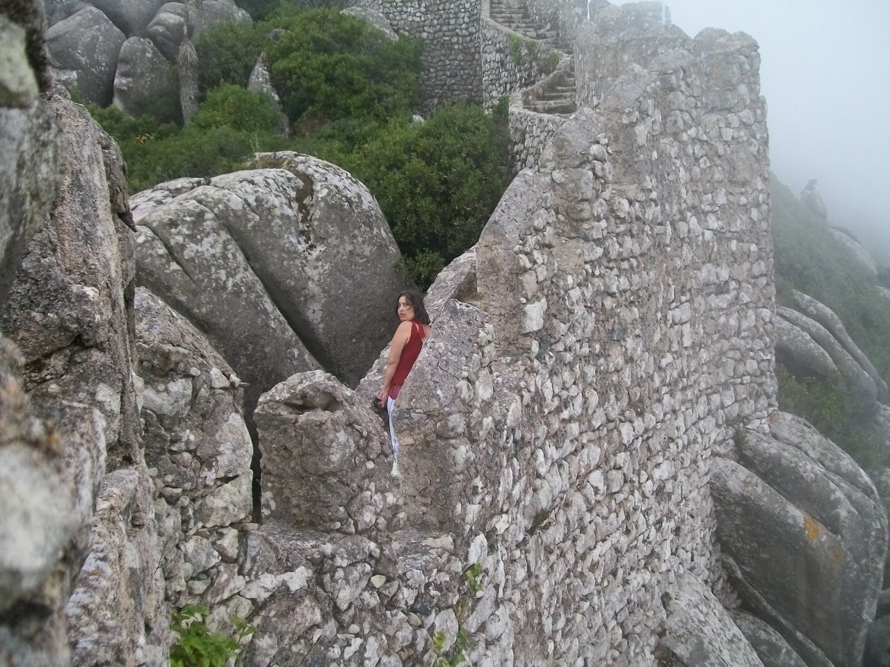 Castle of the Moors (Sintra), Sintra, Portugal